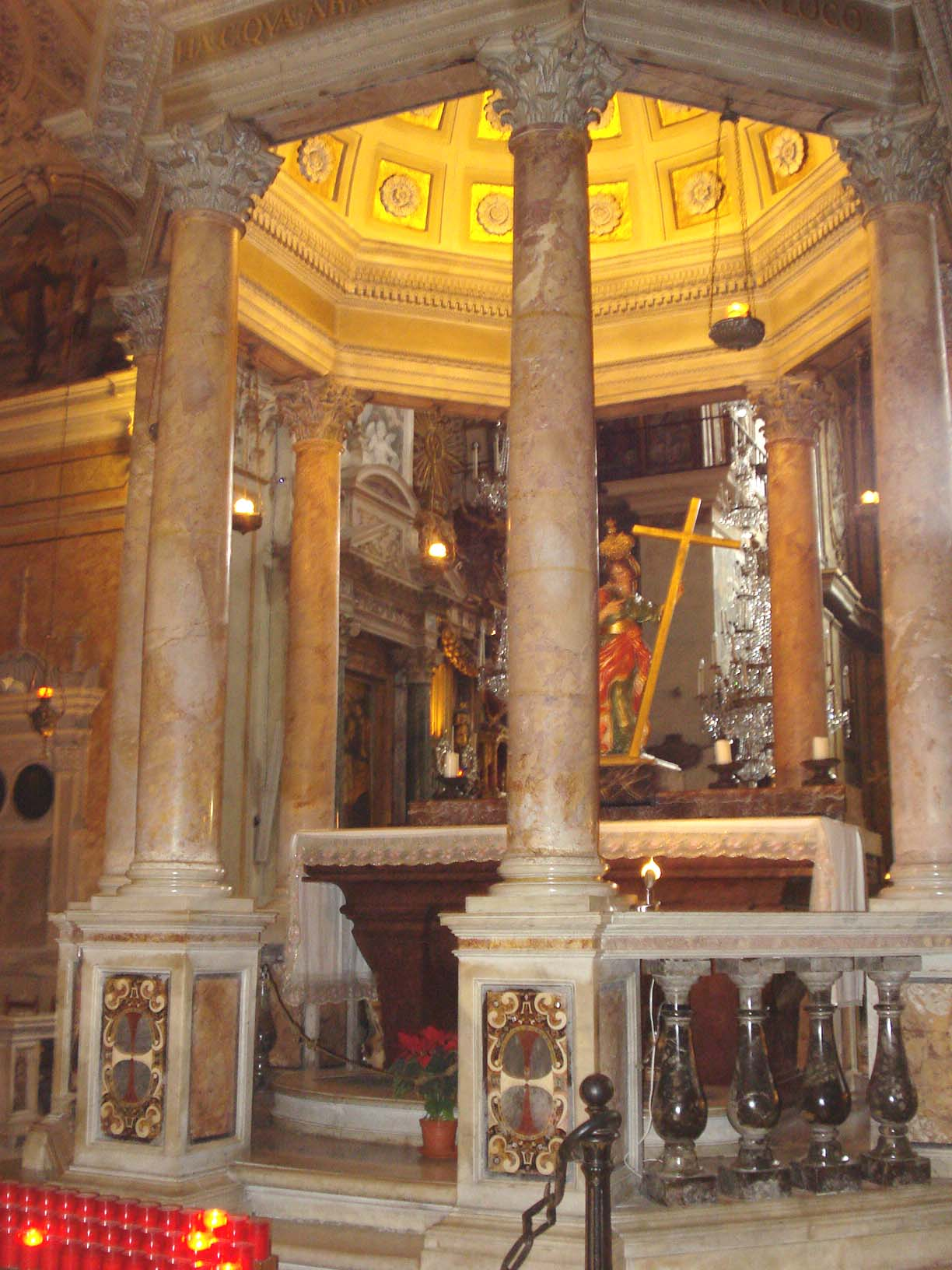 St Helena's altar in Santa-Maria-in-Aracoeli